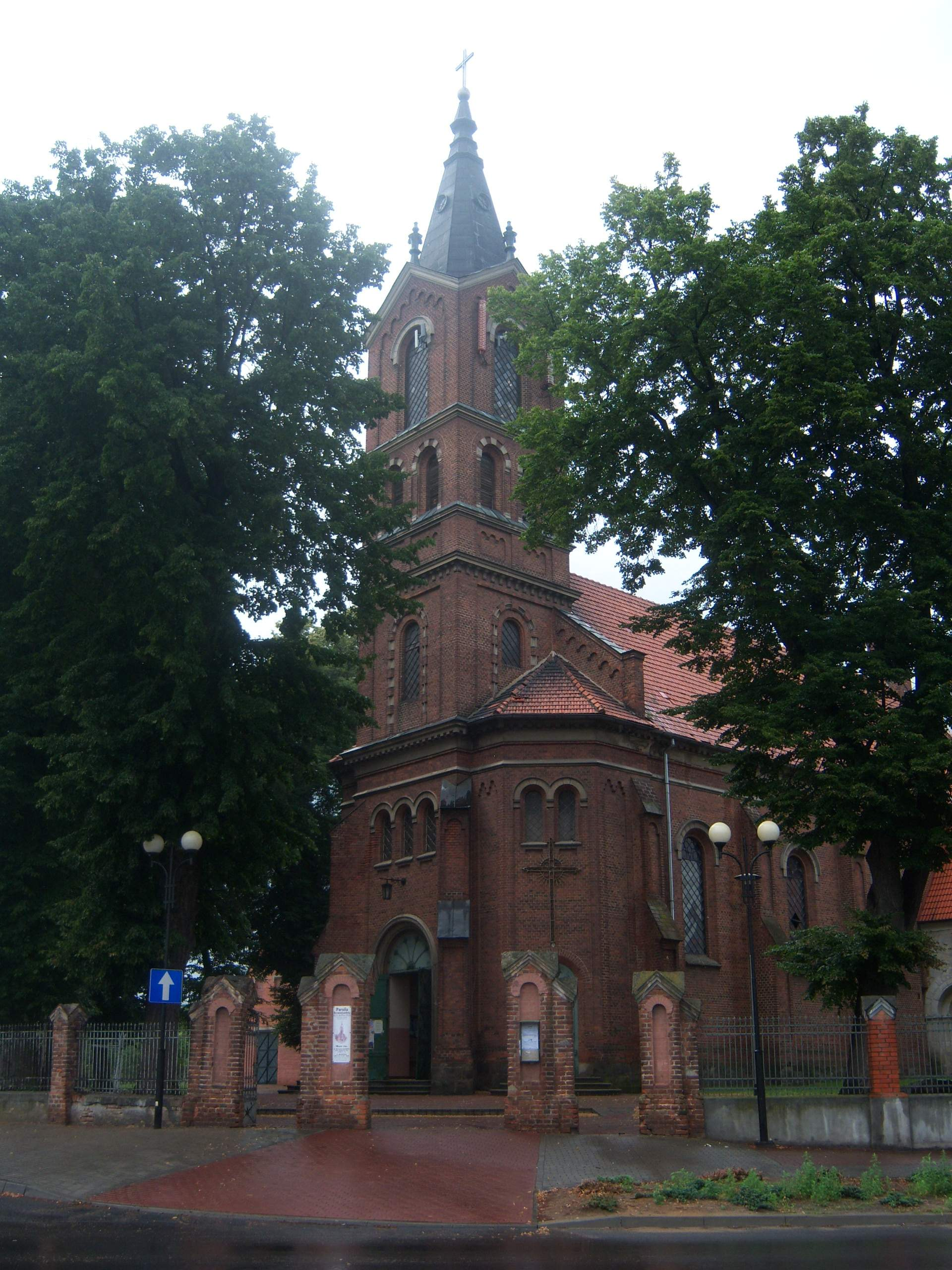 Saints Peter and Paul church in Stare Miasto (koniński district)